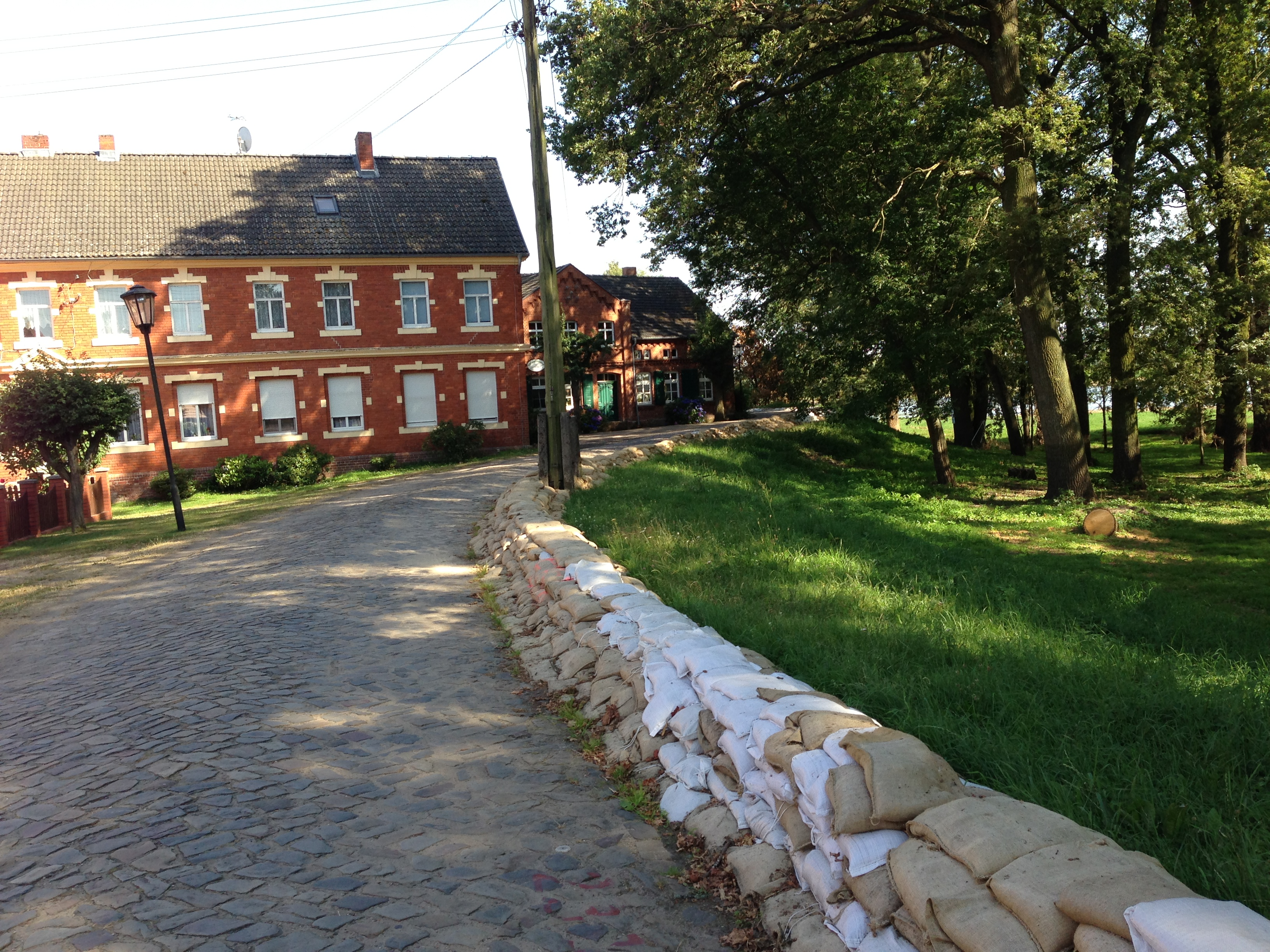 Sand bags of the Elbe flood 2013 in Müggendorf, disctrict Prignitz, Brandenburg, Germany